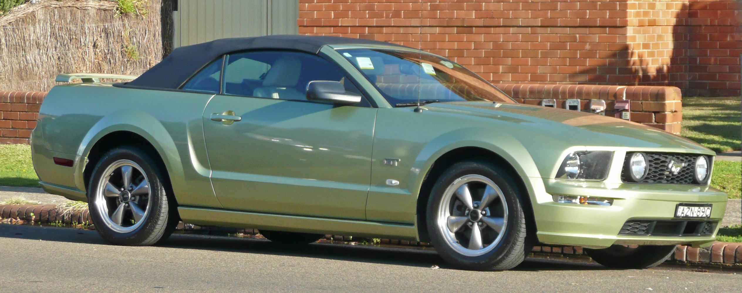 2006 Ford Mustang GT convertible. Photographed in Cronulla, New South Wales, Australia.